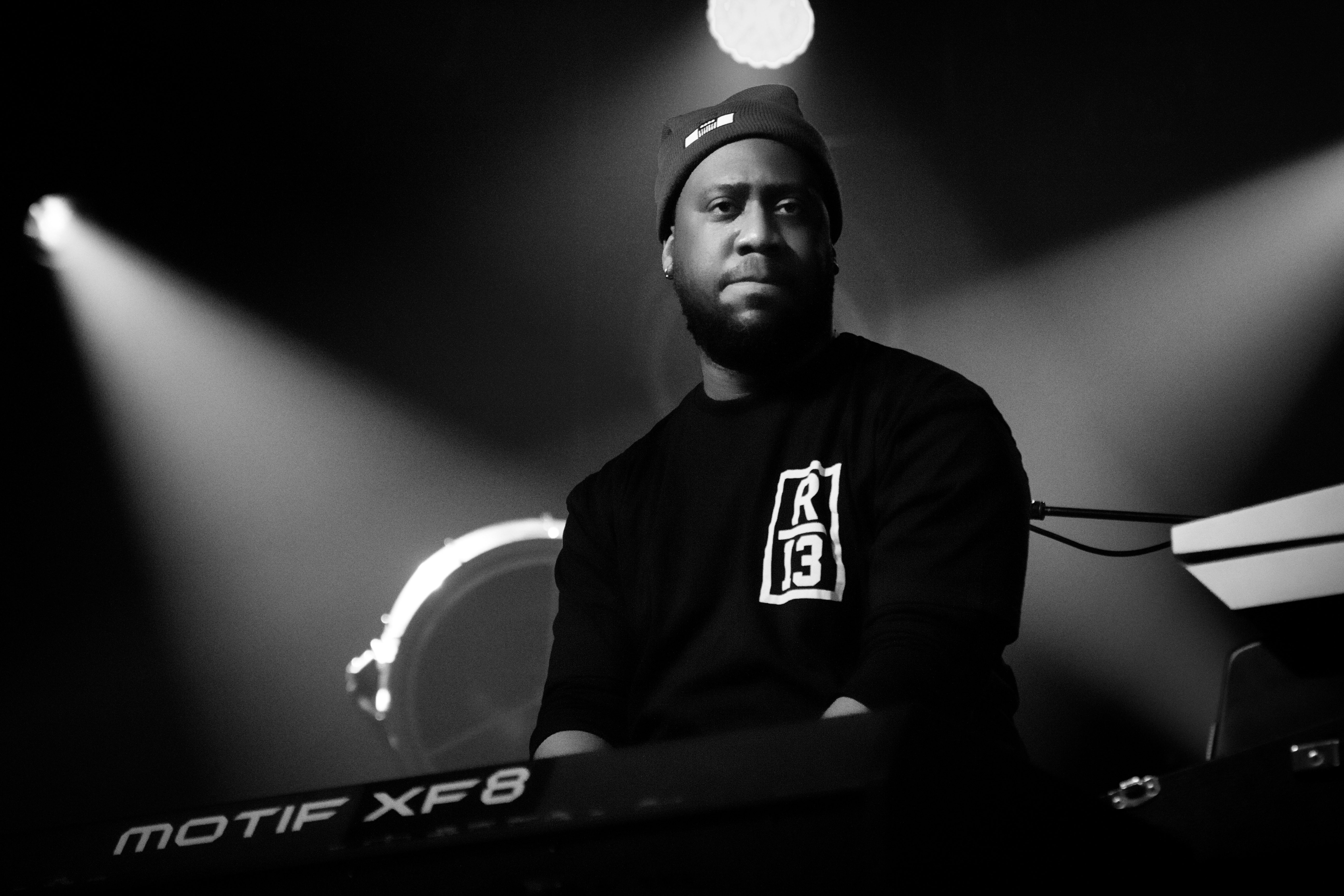 Robert Glasper - Leverkusener Jazztage 2016